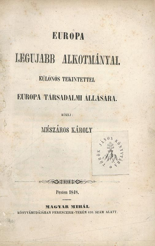 The cover page of the book, called Európa Legujabb Alkotmányai (Europe's Newest Constitutions) by Károly Mészáros. Published in 1848, right before the Hungarian Revolution against the Habsburg rule.